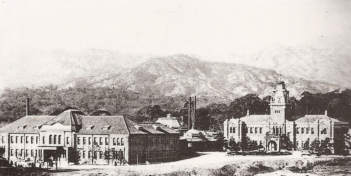 The Great Han Hospital during the Great Korean Empire. The building was built in 1907 by order of the Japanese Resident-General of Korea Itō Hirobumi.[1] It was designed by a Japanese engineer Yabashi Kenkichi.[2] ↑ "서울대병원-연세대병원 '역사 전쟁' 시작됐다". Pressian Coop. (August 21, 2006). ↑ East meets West in downtown architecture - Foreigner-designed buildings. JoongAng Ilbo (May 2, 2011). Yabashi Genji is incorrect. Yabashi Kenkichi (ja) is correct.